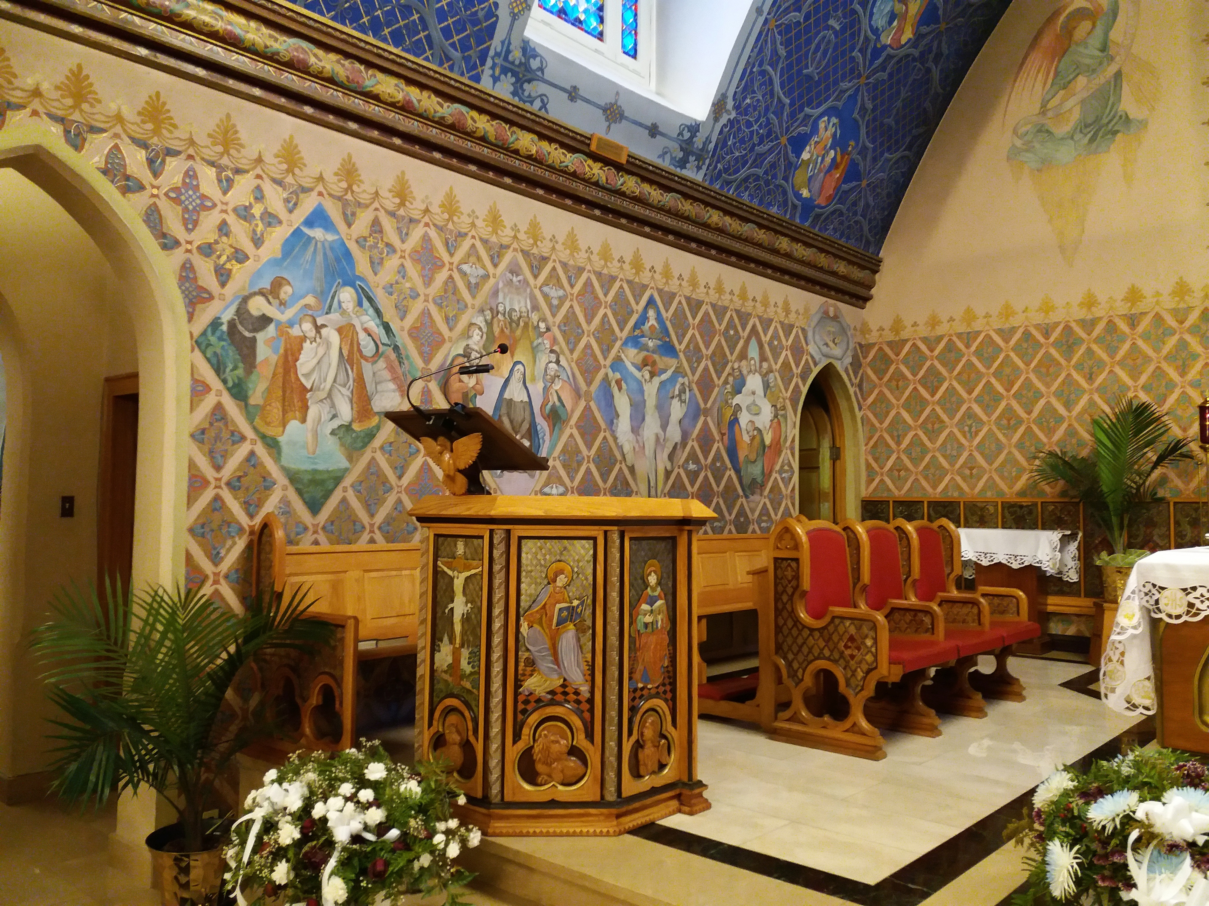 Our Lady of Czestochowa parish church in Montreal (Que), Canada